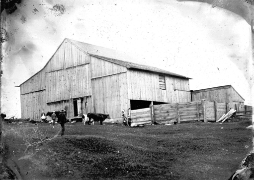 The now demolished barn of Ebenezer Doan, born in Pennsylvania, moved to Ontario, Canada where this barn was